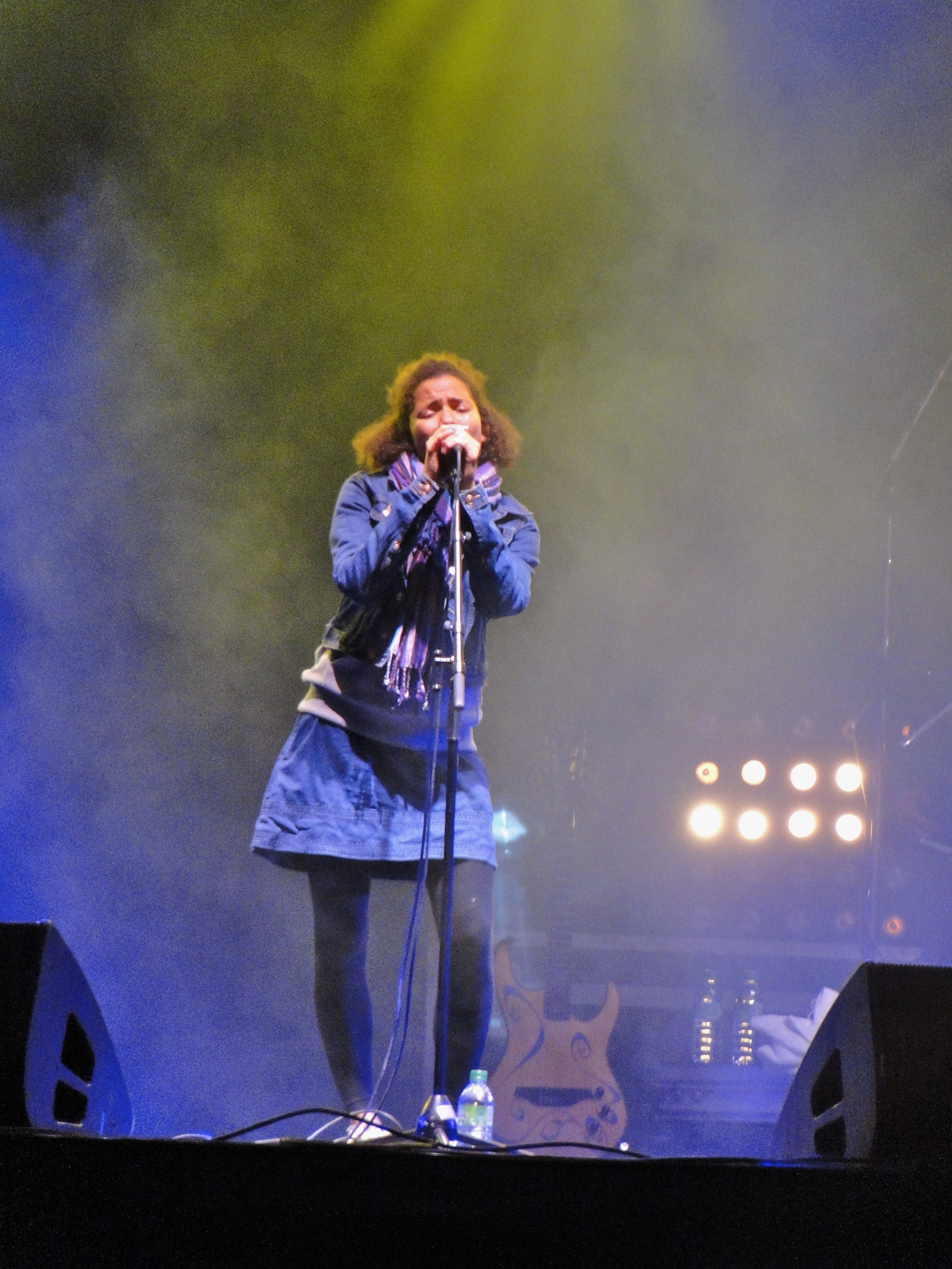 Nneka at Rock en Seine Festival, France, 2011